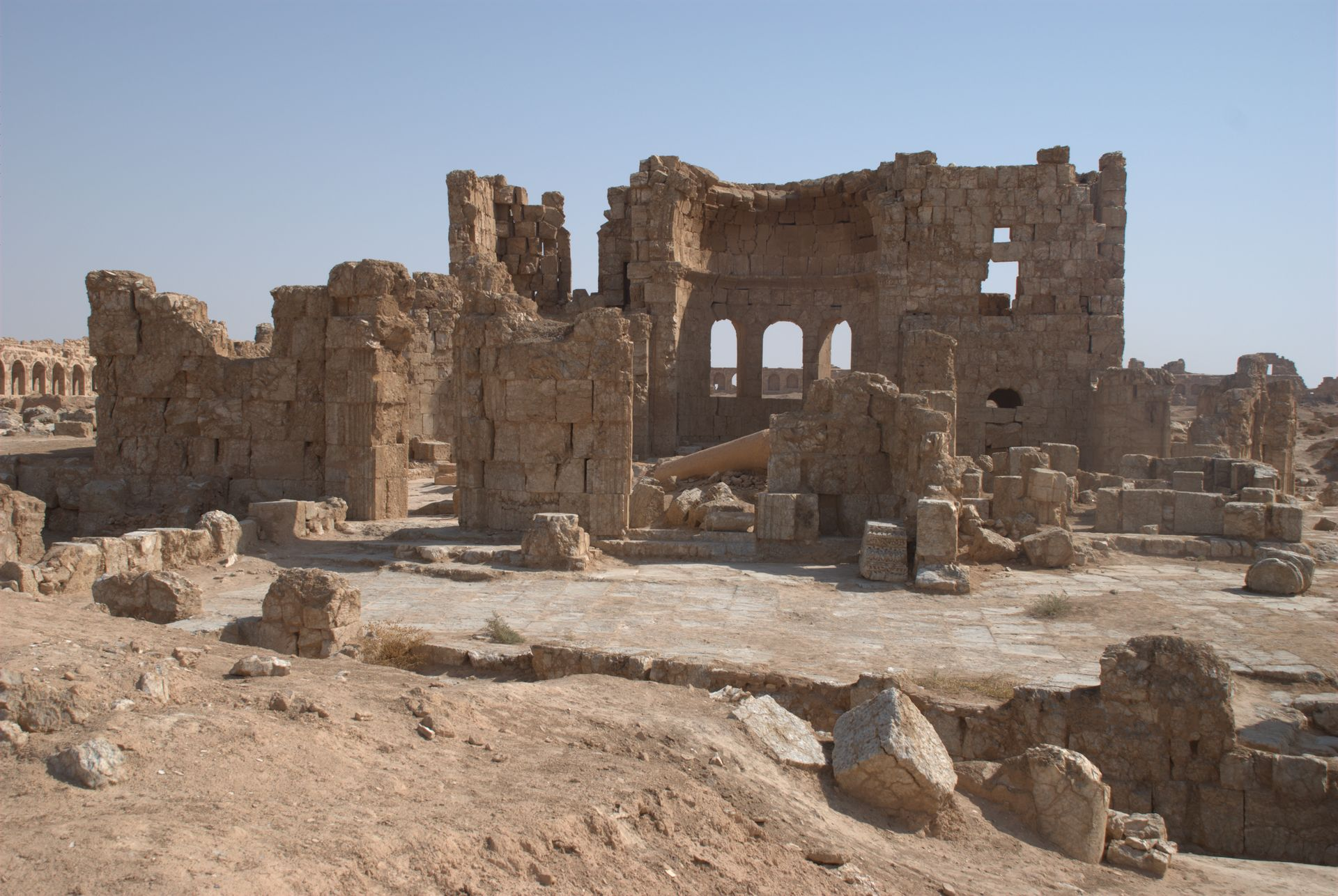 Resafa, Syria, Centralised Church